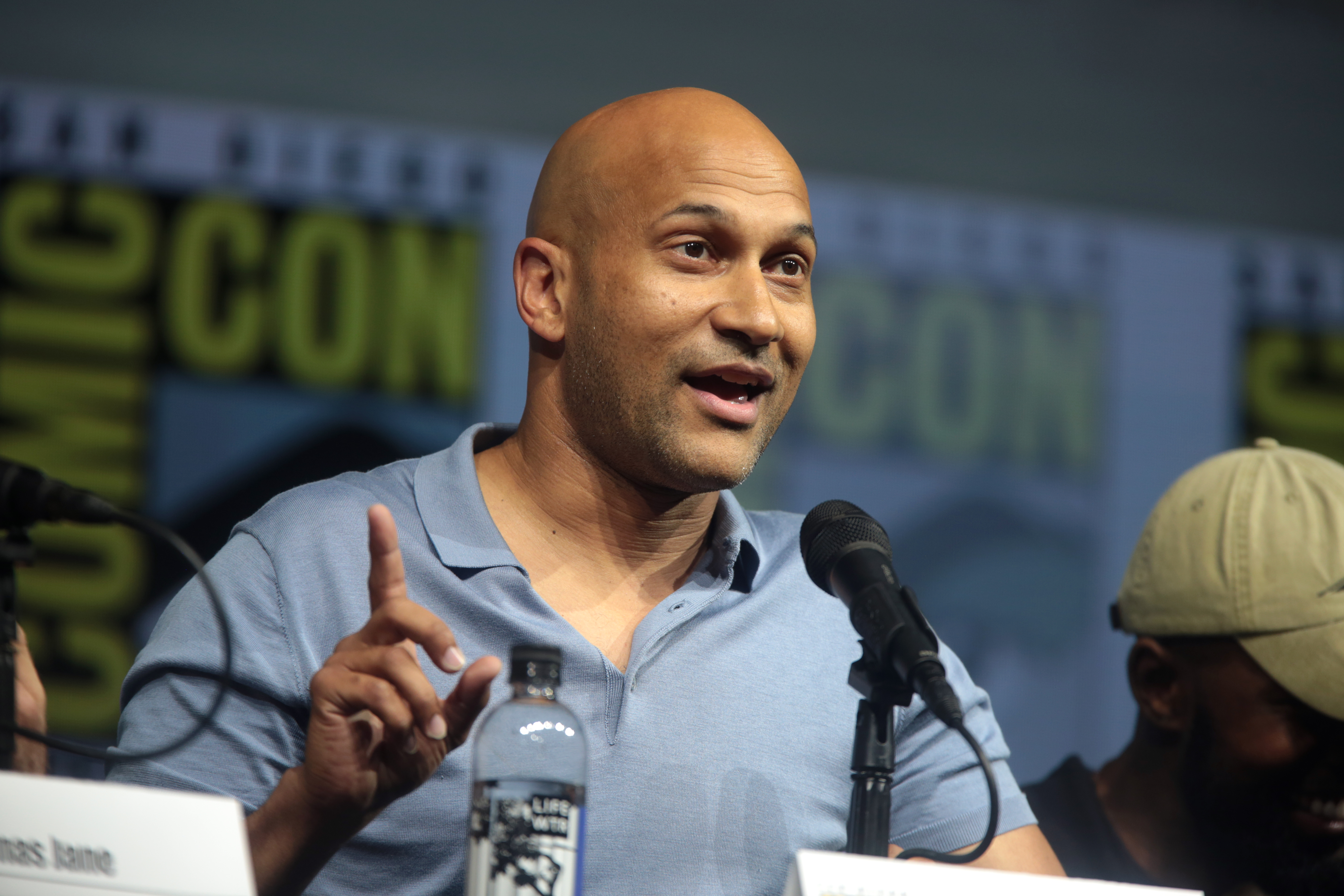 Keegan-Michael Key speaking at the 2018 San Diego Comic Con International, for "The Predator", at the San Diego Convention Center in San Diego, California.